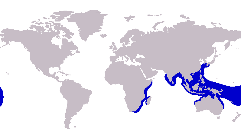 Distribution of brassy trevally, Caranx papuensis using map based on GDFL image: Caution : Map not correct, please check : FishBase's map